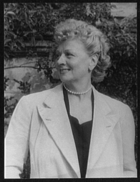 Title: Portrait of Valentine Tessier Abstract/medium: 1 photographic print : gelatin silver.